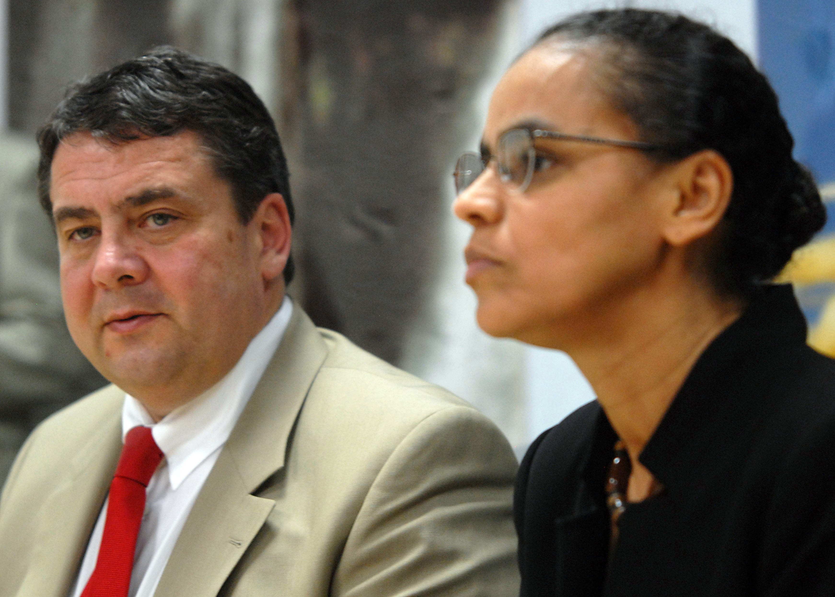 Sigmar Gabriel (SPD), German Federal Minister of Environment with brazilian Federal Minister of Environment Marina Silva.